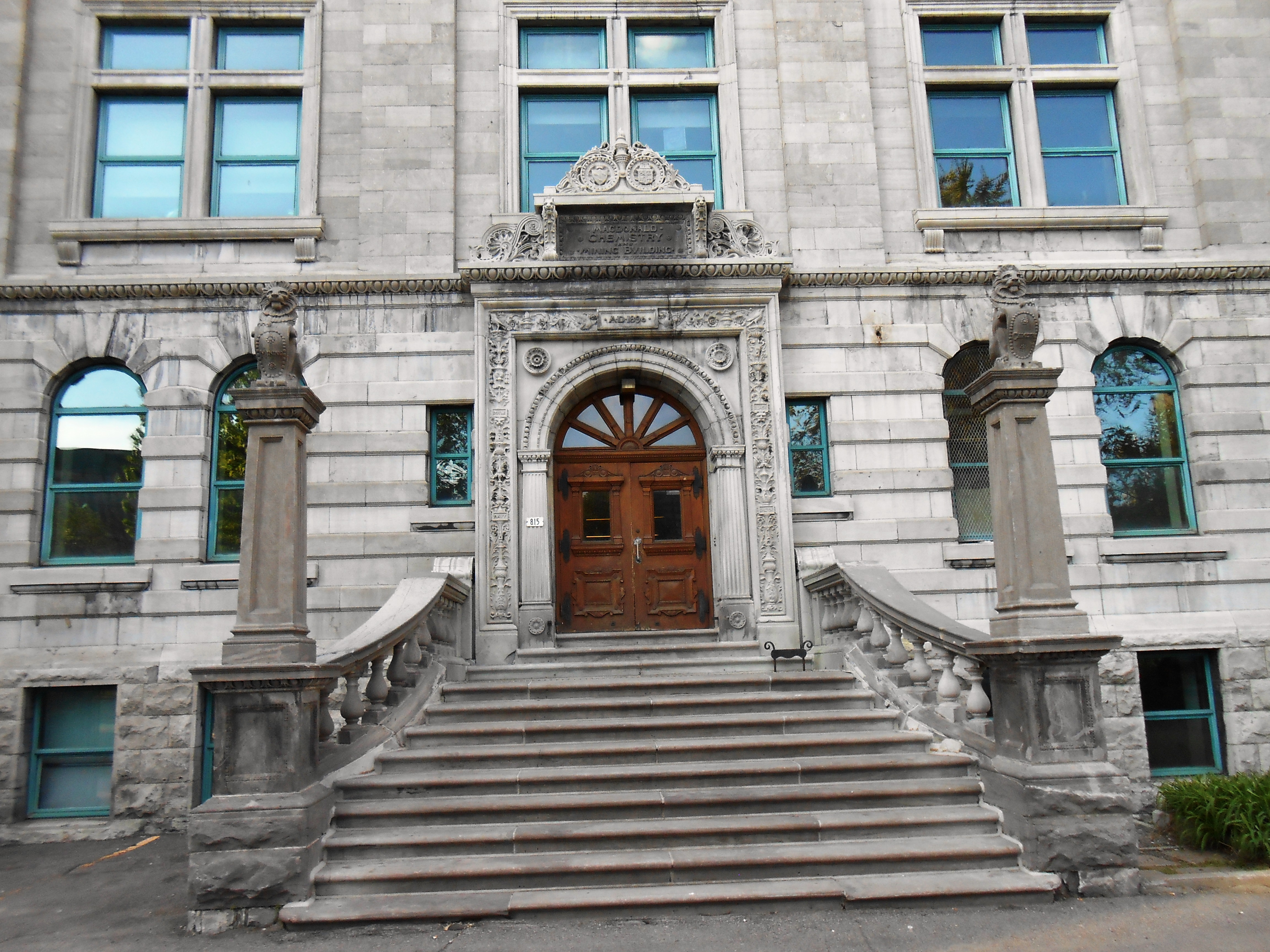 Macdonald Harrington Building, McGill University downtown campus, Montreal